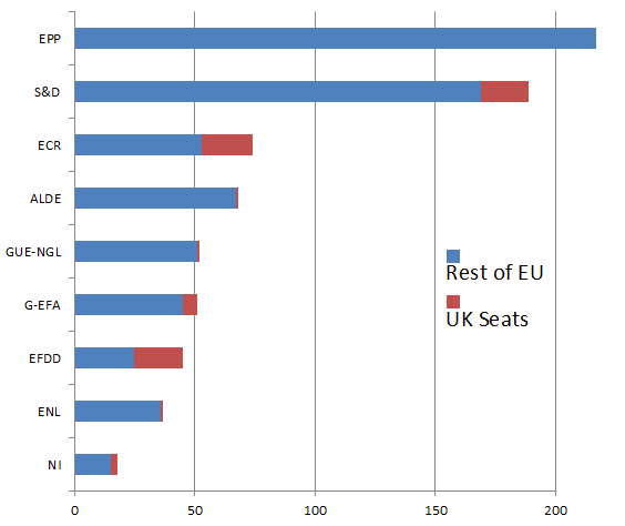 Seat change post Brexit based on EP groups in 2017